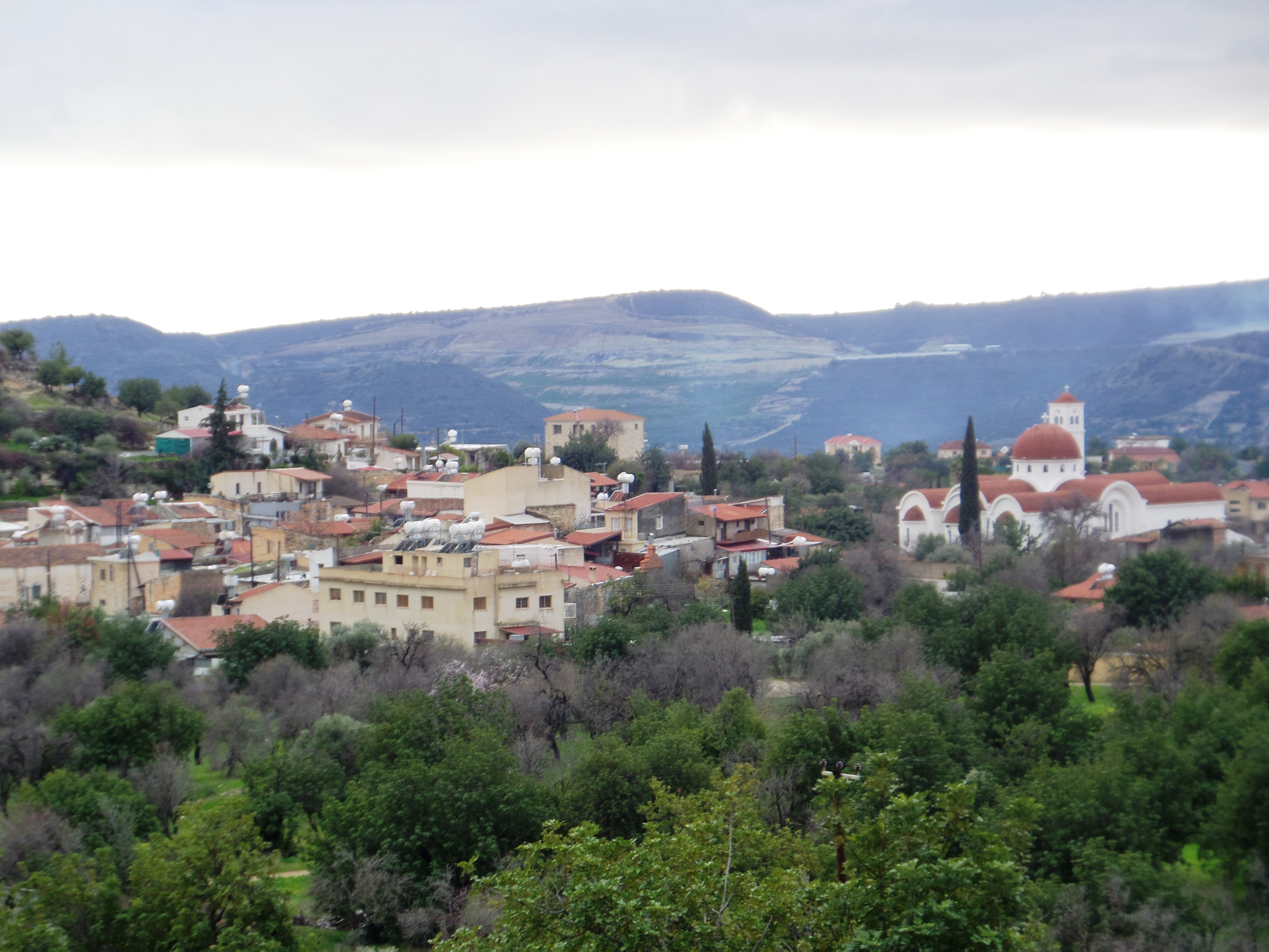 View of Apesia.